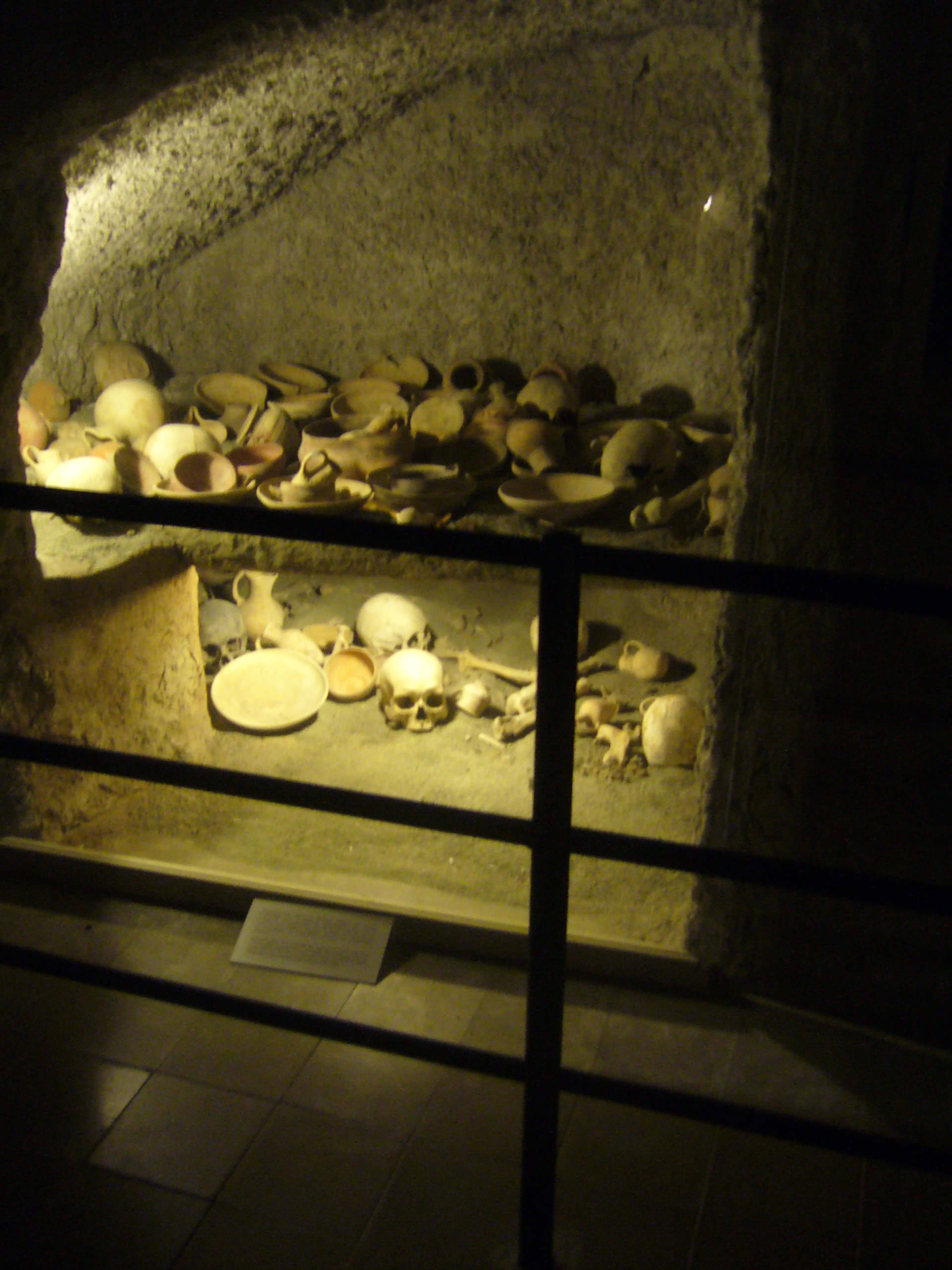 Reconstruction of a late Bronze age tomb (1400-1200 B.C.). The chamber included two burial levels. The oldest being on the lower level and the later on the upper level. Amongst the finds there was a Mycenaean crater with painted stags. Archaeological Museum, Nicosia, Cyprus